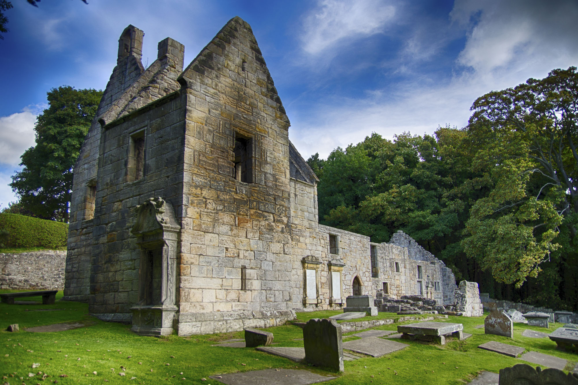 St. Bridget's Church